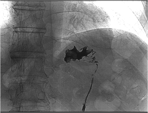 Percutanous gastrostomy